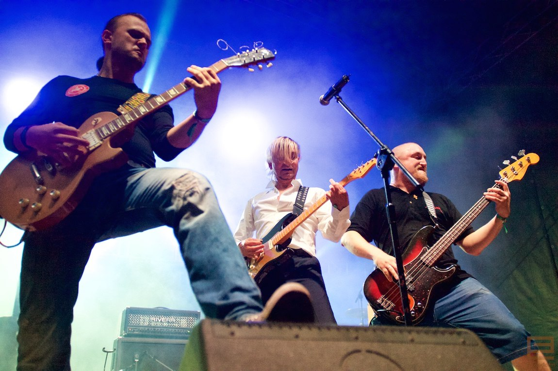 Pasha Triput and Krambambulia